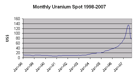 Graph created from the data in the spot uranium price page NUEXCO Exchange Value Monthly Spot (US$ per lb U3O8). Last four data point from UxC Nuclear Fuel Price Indicators. More details about the reference can be found in the Peak uranium. See caption under the figure. If you use this graph please credit the author.